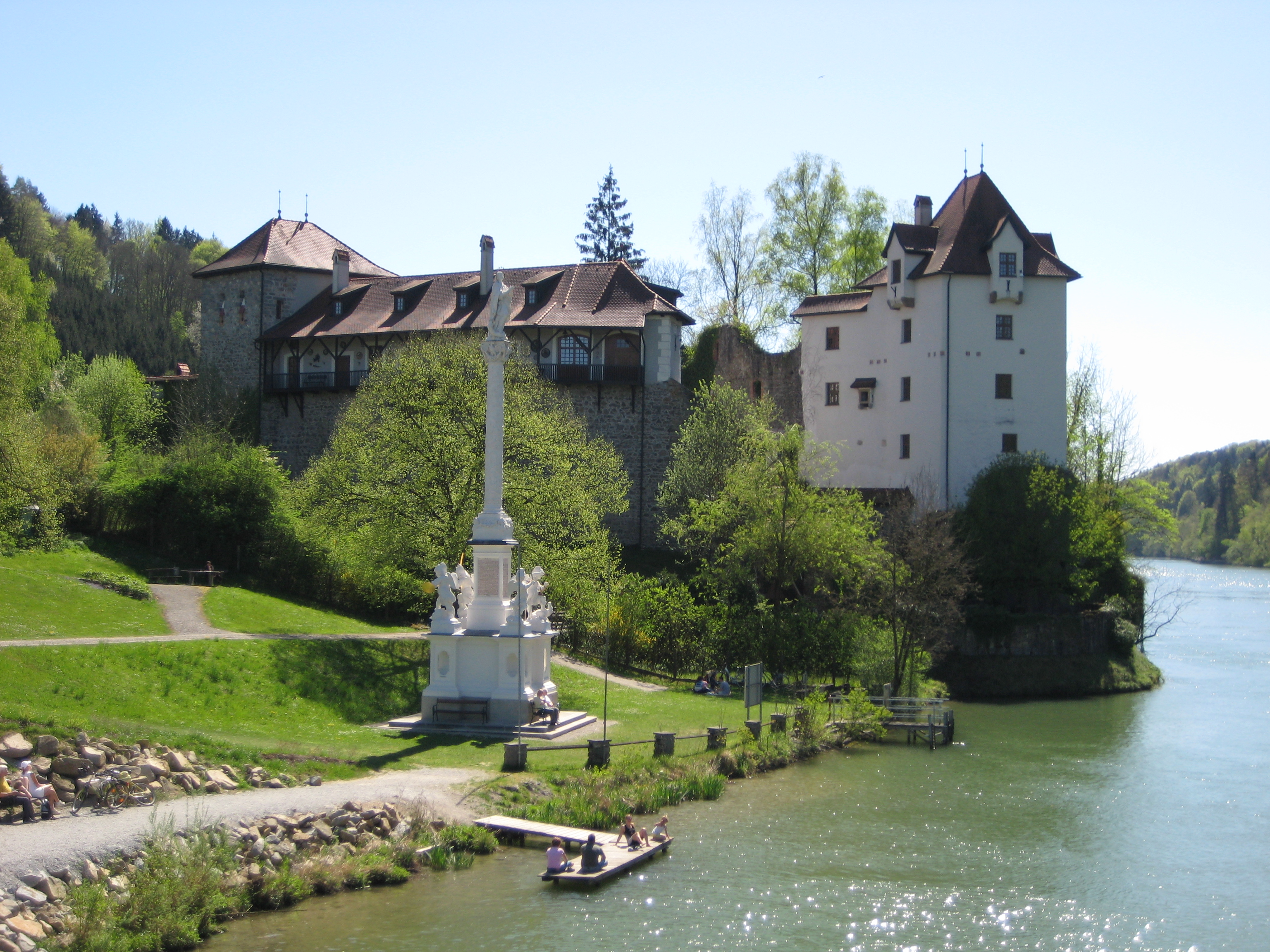 Castle Wernstein and statue of the Virgin Mary in Wernstein am Inn